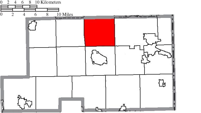 Map of the municipal and township boundaries of Mahoning County, Ohio, United States, as of the 2000 census, with the location of Austintown Township highlighted. Township borders are shown only in unincorporated areas in order to differentiate incorporated and unincorporated areas more clearly.